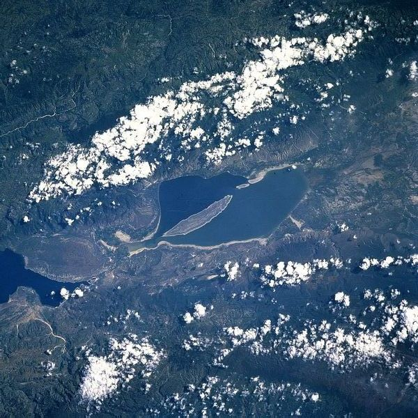 Lake Enriquillo, Dominican Republic - September 1993